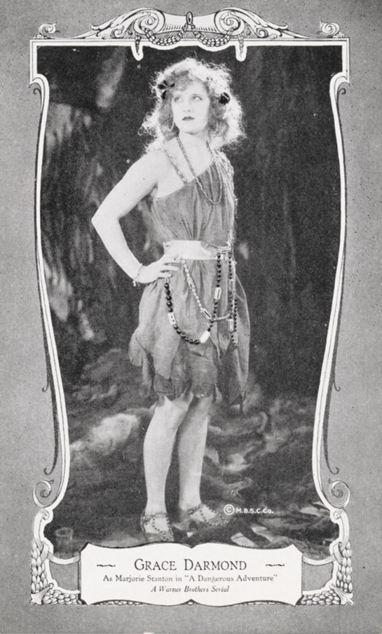 Grace Darmond as Marjorie Stanton in the American film serial A Dangerous Adventure (1920). Postcard from Max B. Sheffer Card Co. (Chicago) Movie Stars Postcard Set (1922). Size of postcard: 3.25-by-5.5-inches. For additional information about this postcard set see there, there and there.